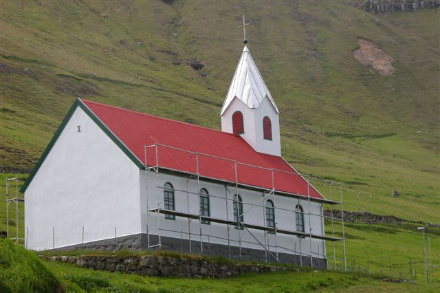 Chursch of Hestur